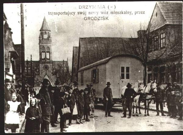 Michał Drzymała in Grodzisk Wielkopolski (Poland)